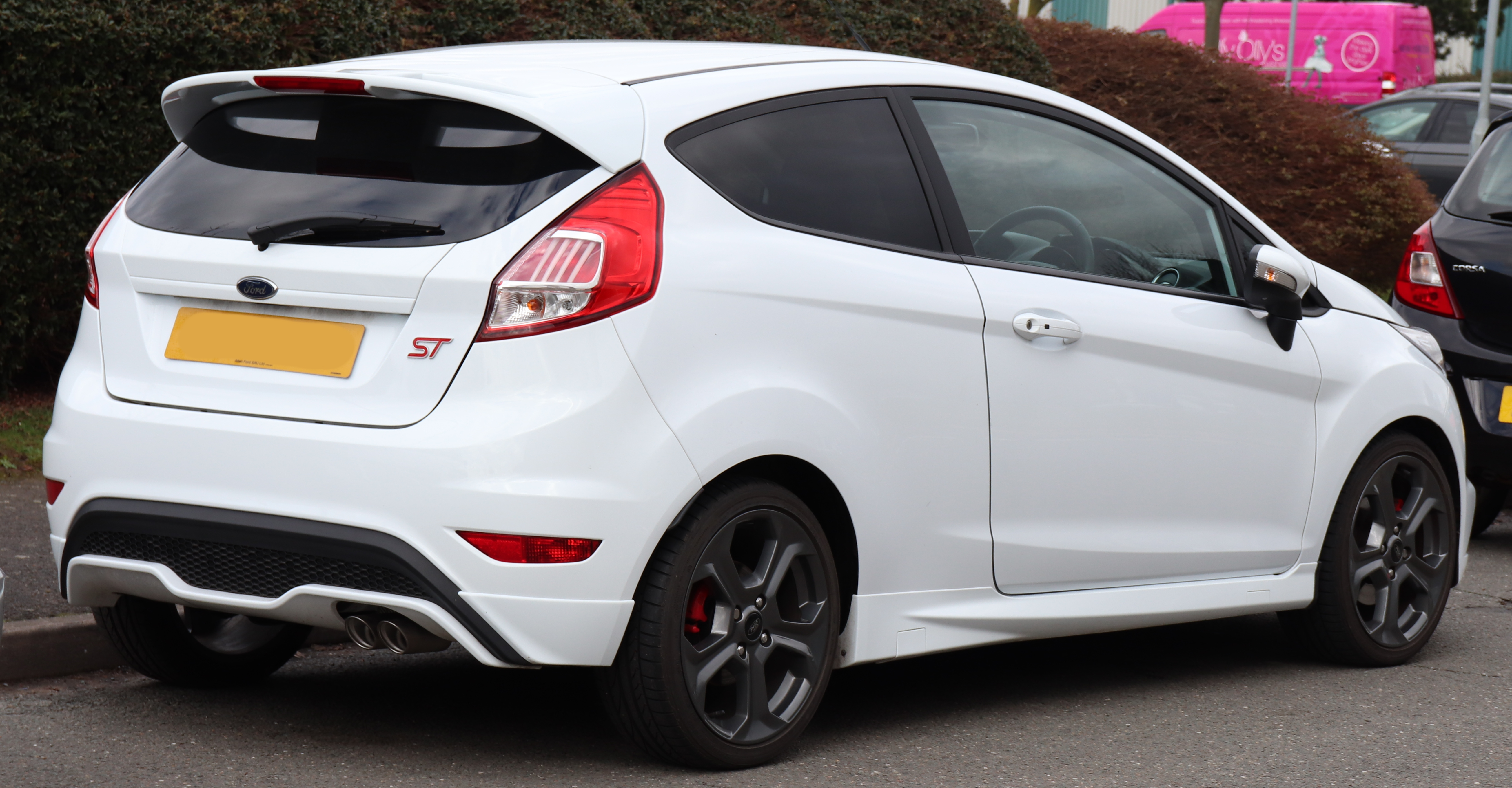 2017 Ford Fiesta ST-3 Turbo 1.6 Rear Taken in Leamington Spa